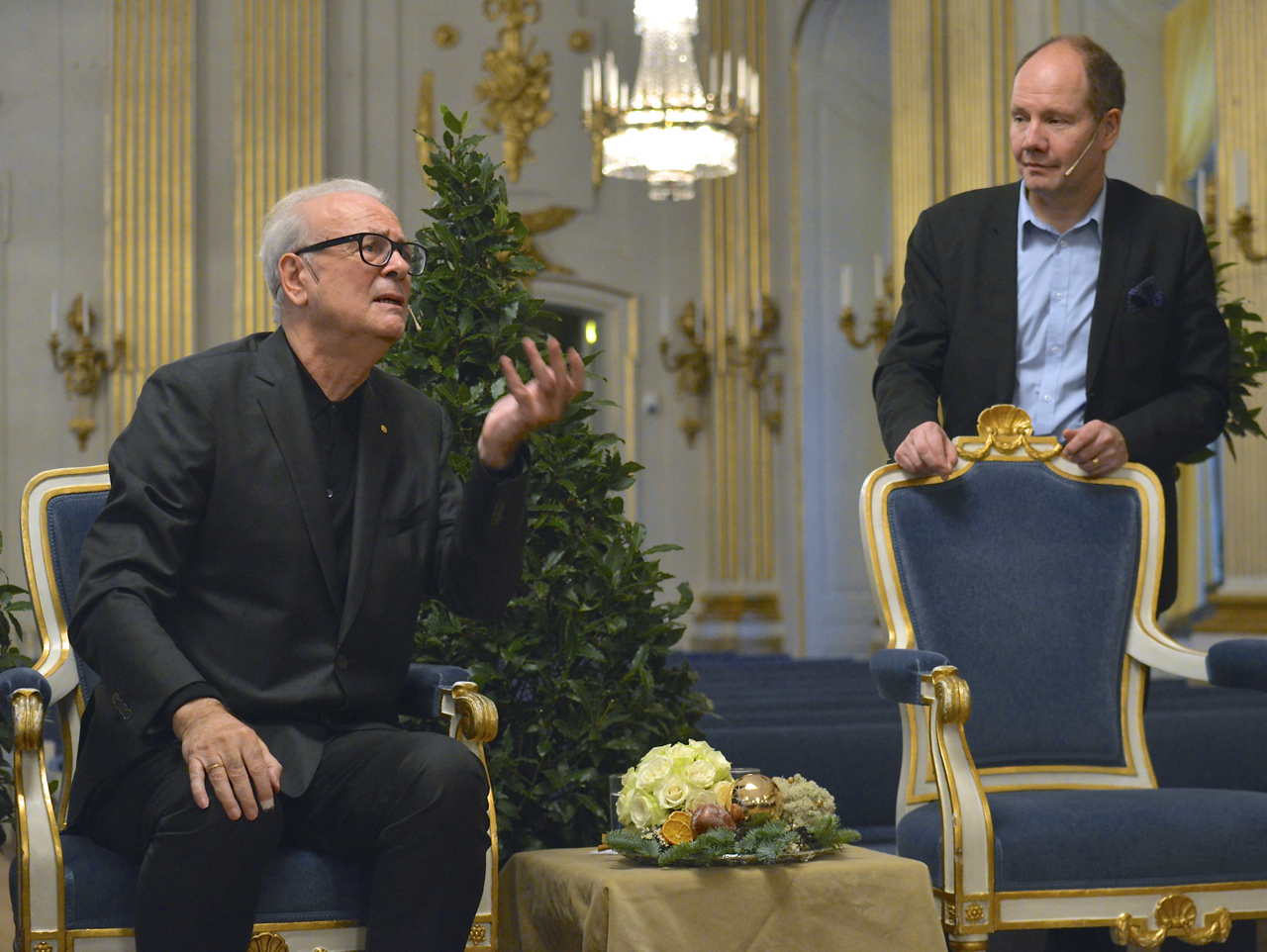 Patrick Modiano in Börshuset in Stockholm during the Swedish Academy's press conference on 6 December 2014.